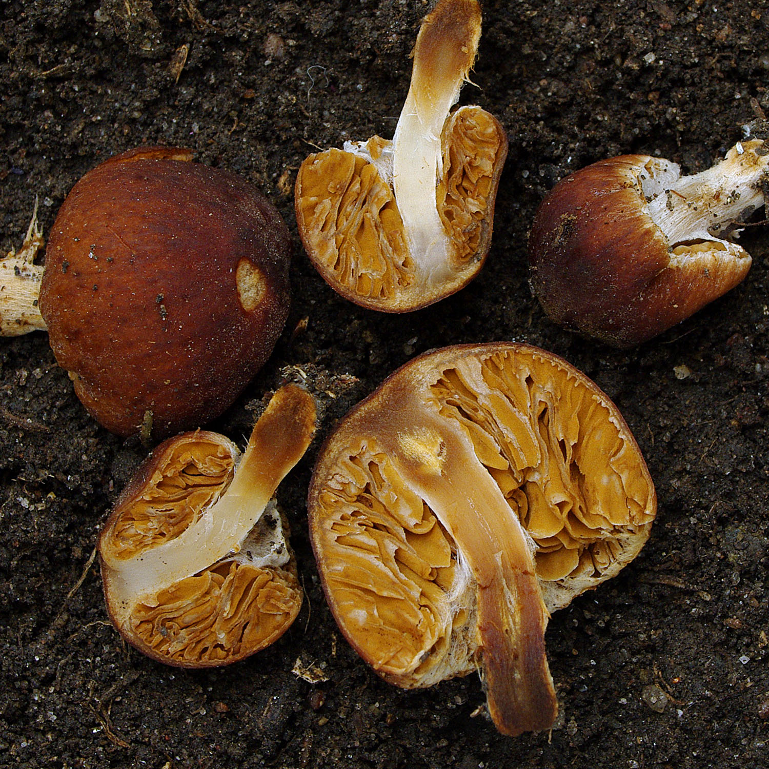 Fruit bodies of a fungus in the genus Setchelliogaster. Tentatively identified as Setchelliogaster tenuipes. Specimens collected in Melbourne, Victoria, Australia.